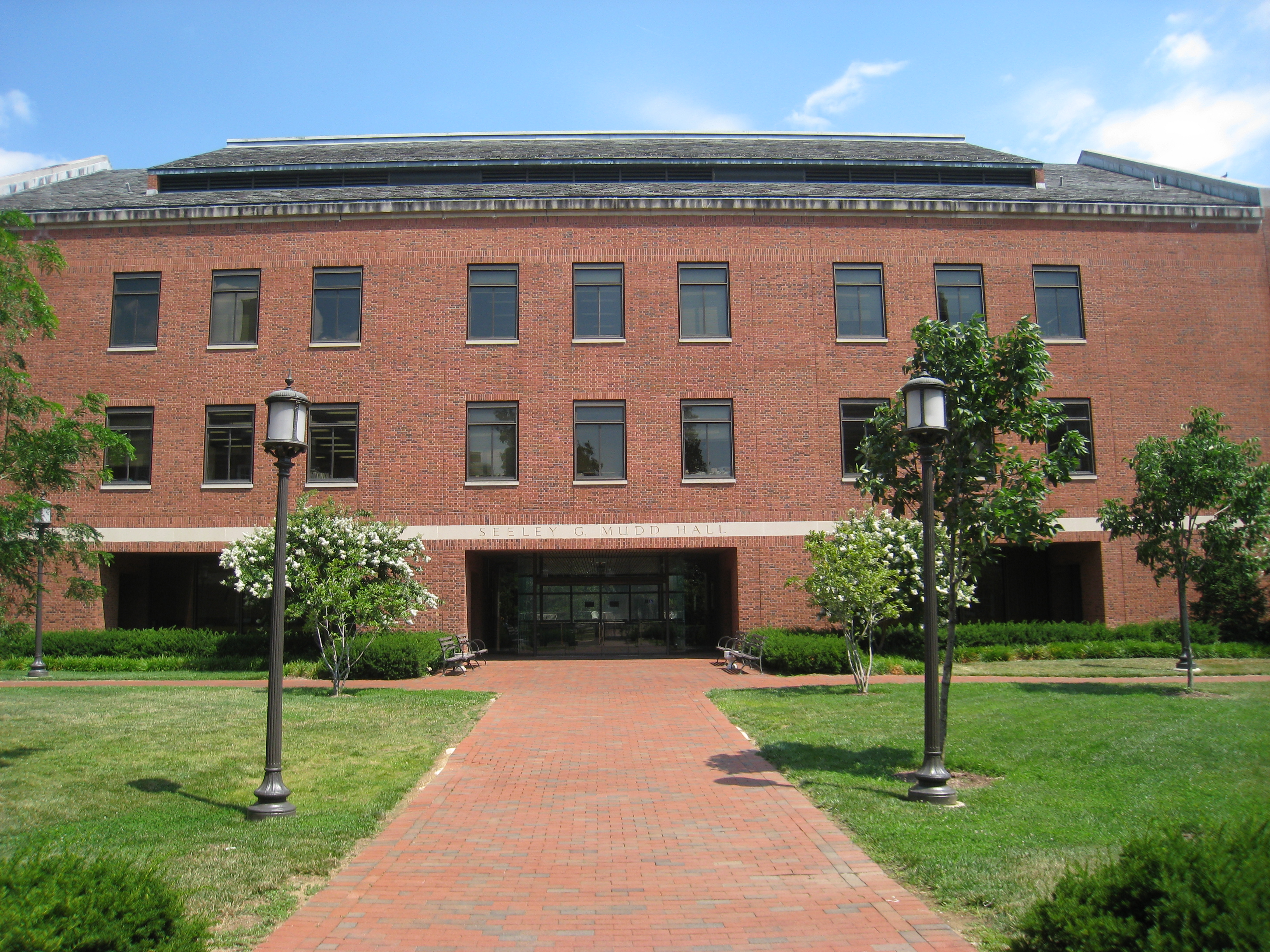 Mudd Hall, Johns Hopkins University, Baltimore, Maryland, USA.